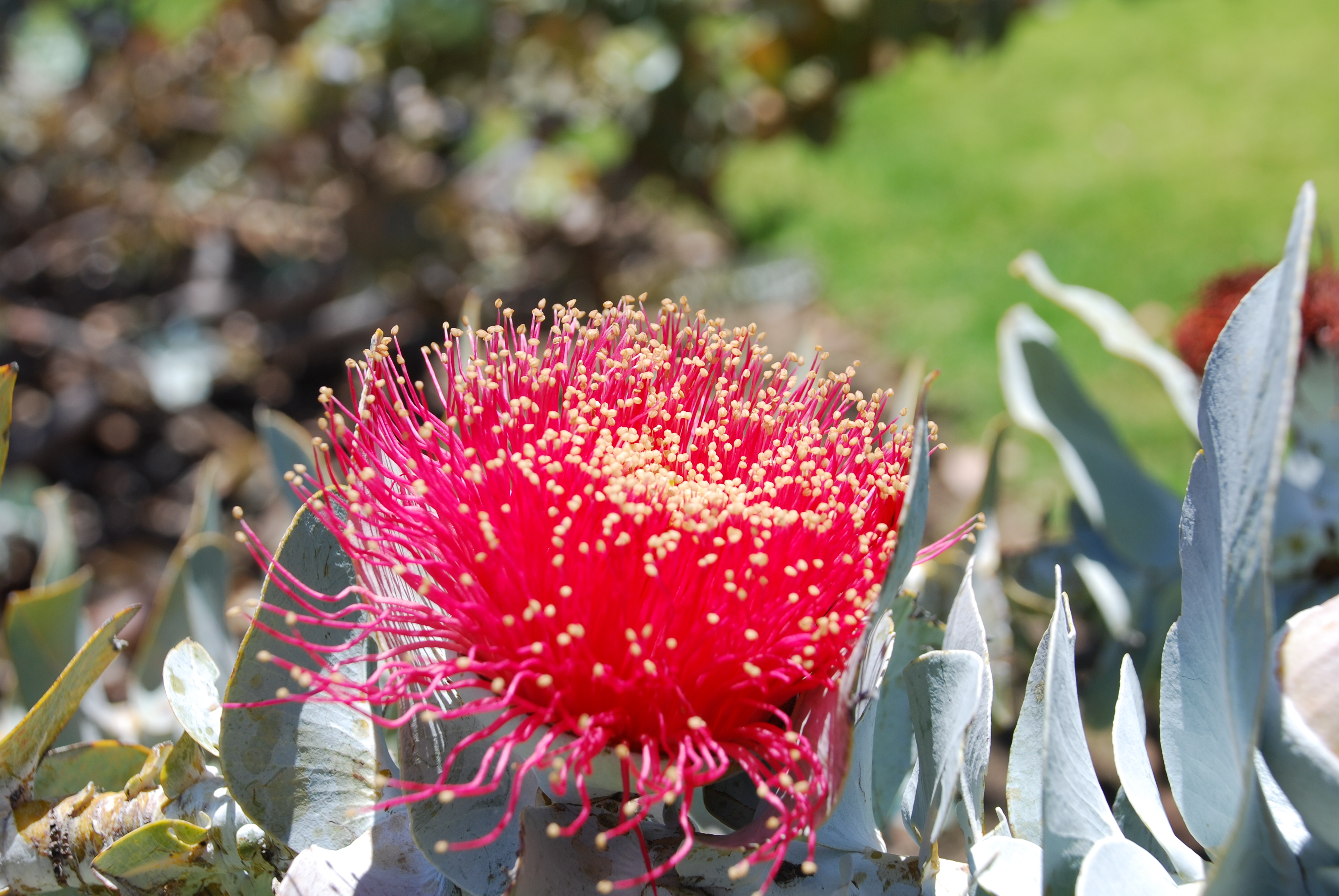 Red flower (Eucalyptus sp.) in Kings Park's botanic garden, Perth, Western Australia. Taken in summer 2009.